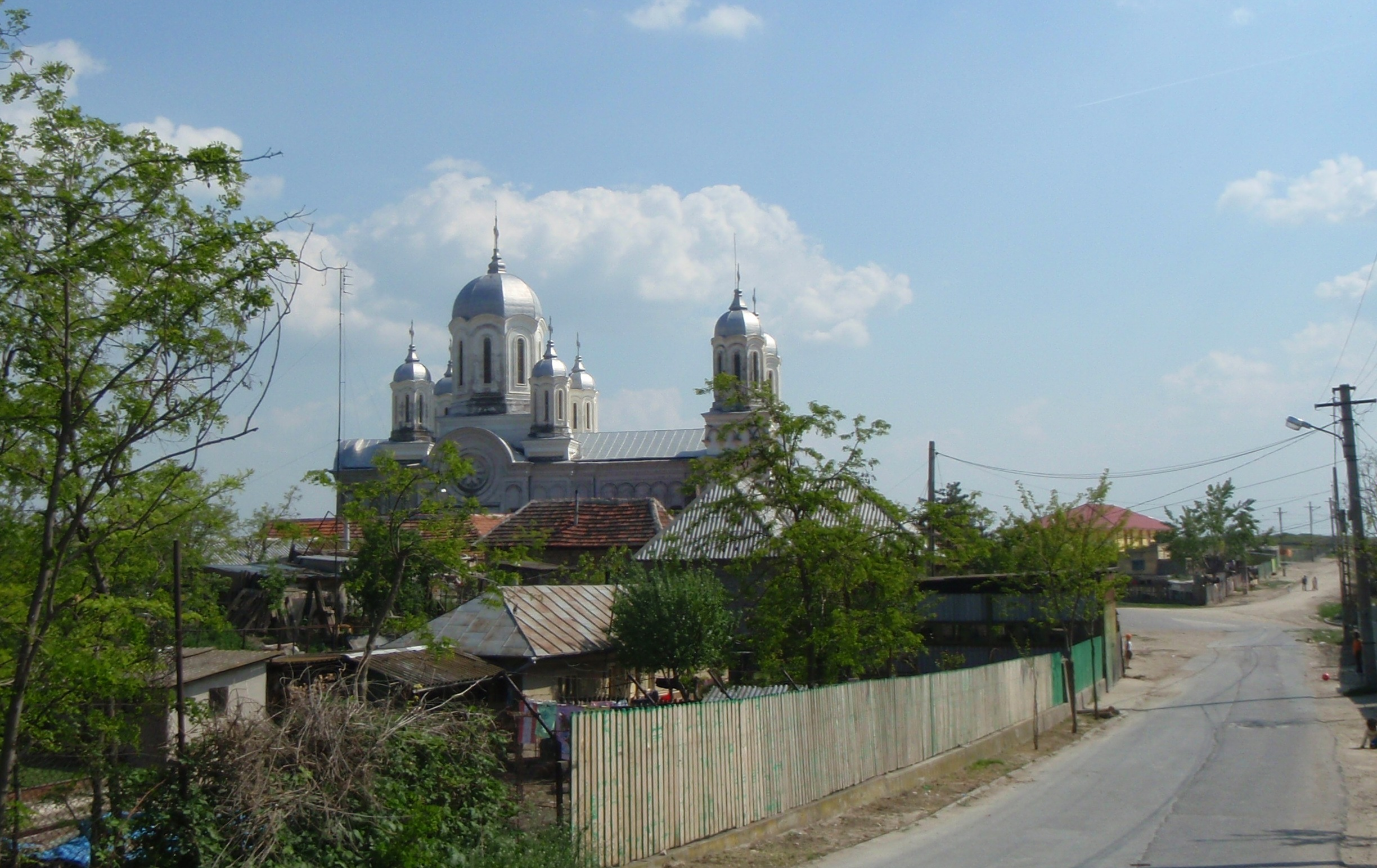 Street scene in the town of Hârşova, Constanţa county, Romania. "Sfinții Împărați Constantin și Elena" Church in the background.